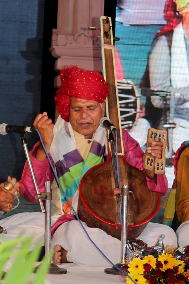 performing